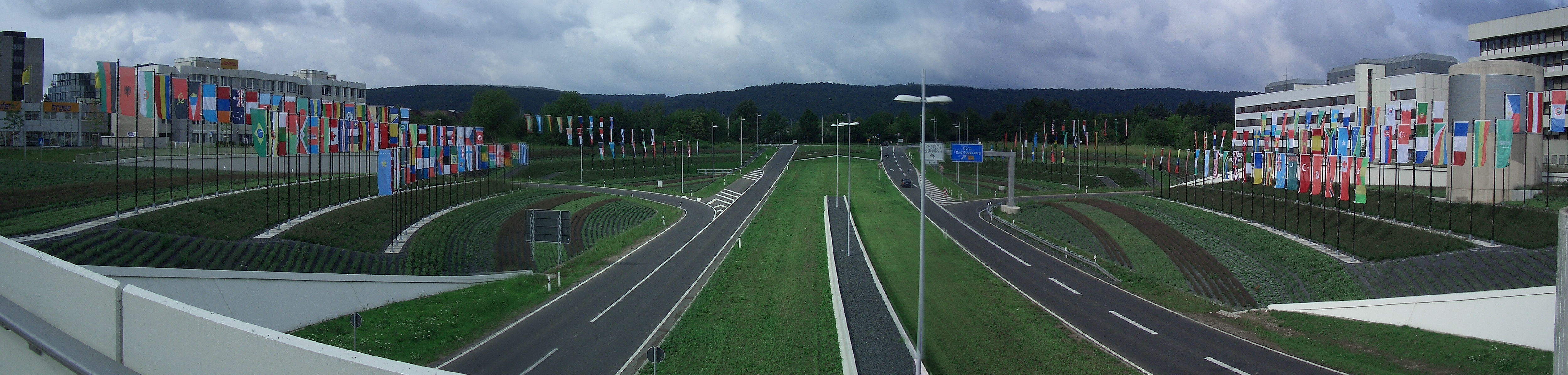 View on the junction between Federal motorway 562 and Federal road 9 in Bonn.